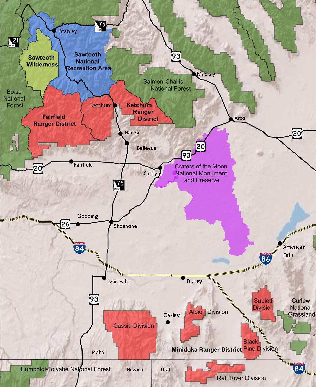 A map of Sawtooth National Forest in Idaho and Utah. The Fairfield, Ketchum, and Minidoka Ranger Districts are in red, the Sawtooth Wilderness in yellow, and the Sawtooth National Recreation Area in blue. Surrounding National Forests, including Boise, Salmon-Challis, and Humboldt-Toiyabe, along with Curlew National Grassland are in green. Craters of the Moon National Monument and Preserve is in purple. Several roads and towns are displayed. This map was made using ARCGIS 10, and all data are in the public domain. Forest Service boundary data are from the US Forest Service FSGeodata Clearinghouse. Roads are from the National Highway Planning Network and Craters of the Moon is from the USGS National Gap Analysis Program.